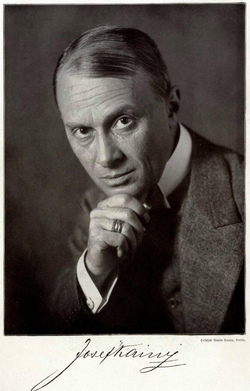 Josef Kainz by Erwin Raupp